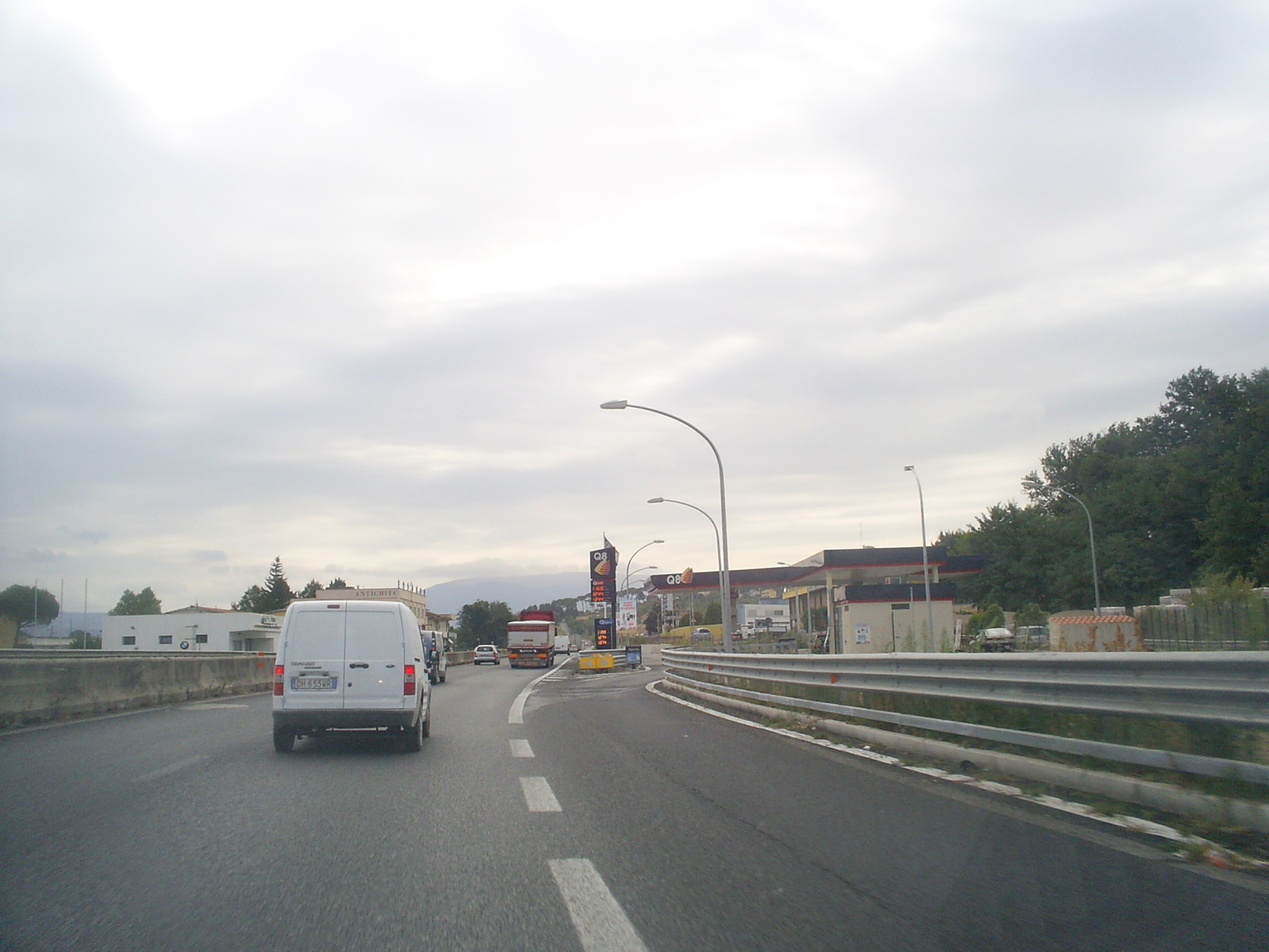 Highway RA06 in Italy